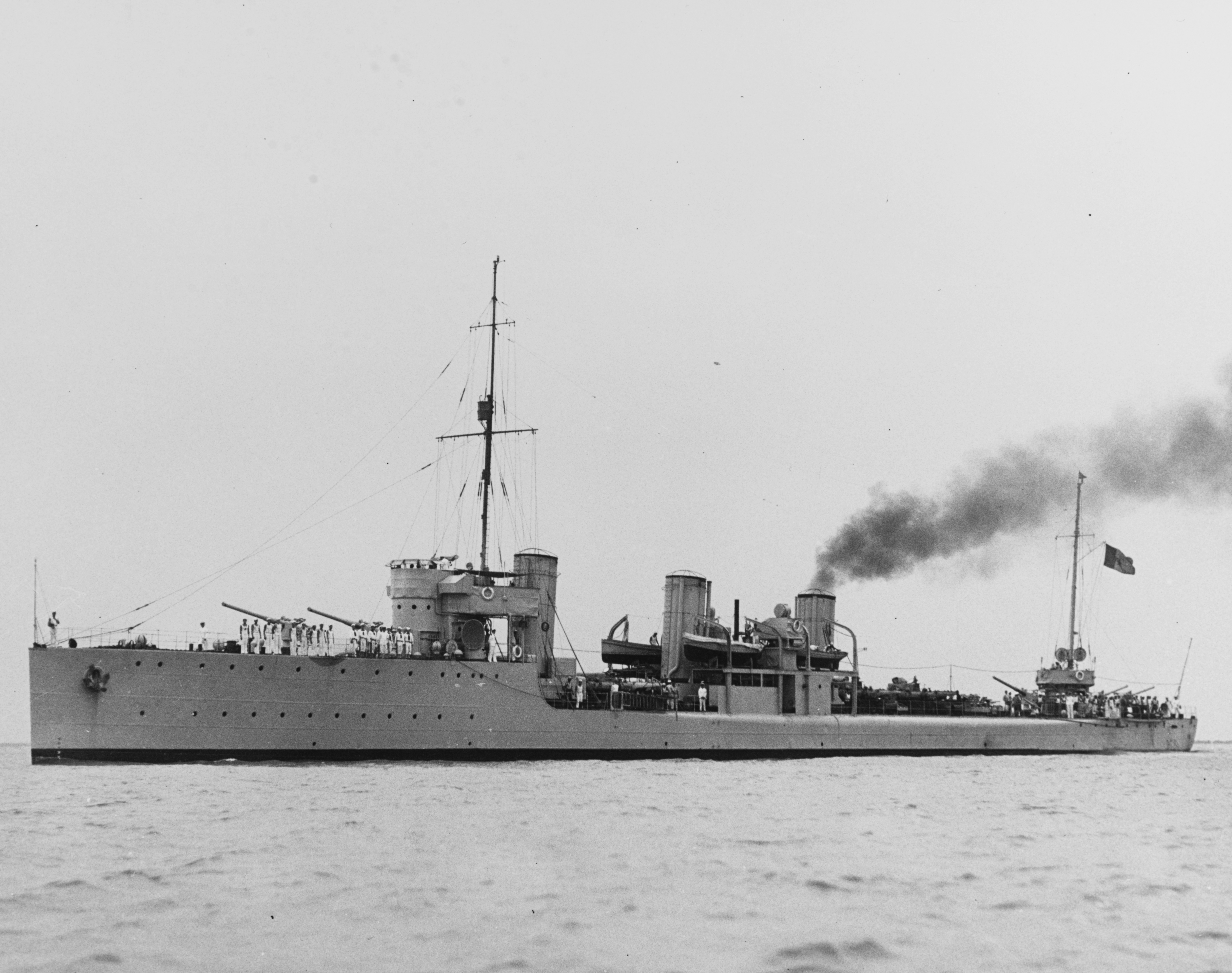 Title: ALMIRANTE GUISE Peruvian DD, 1915 Caption: In Colon harbor, 26 June 1934. She was formerly the Estonian DD LENNUK and Russian DD AVTROIL.